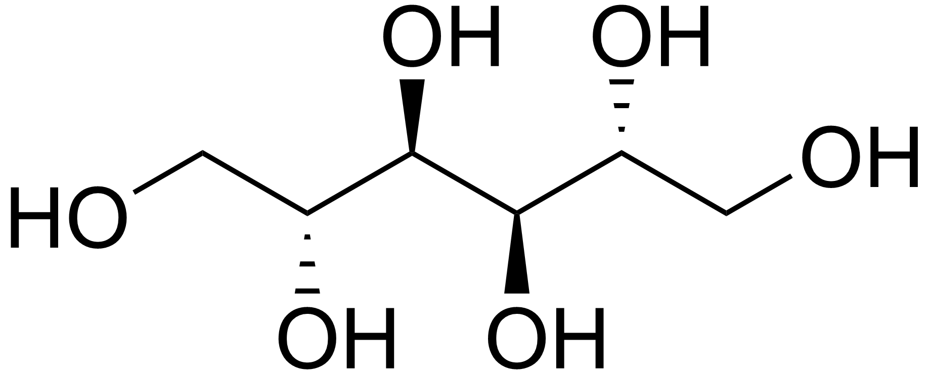 chemical structure of mannitol